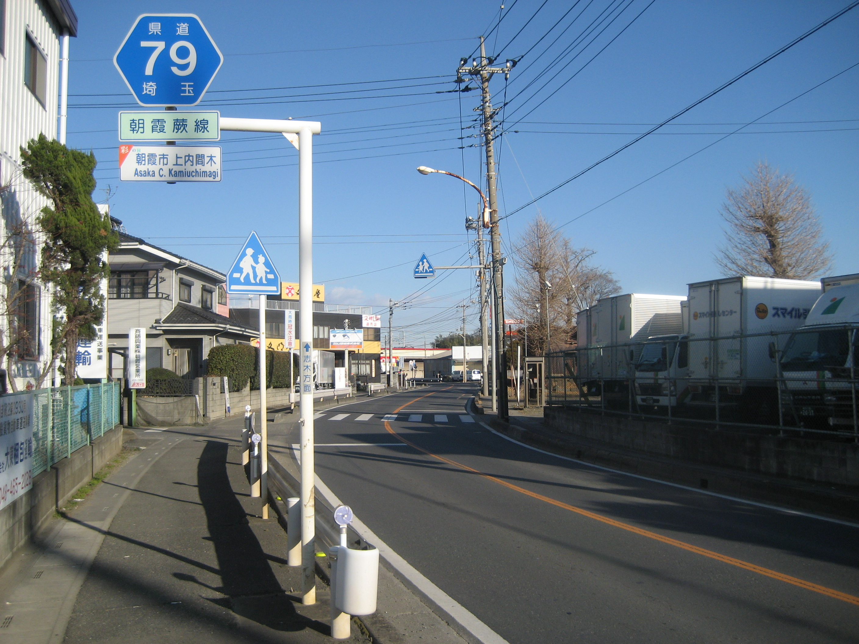 The Saitama Prefectural Road Route 79 in Kamiuchimagi, Asaka City